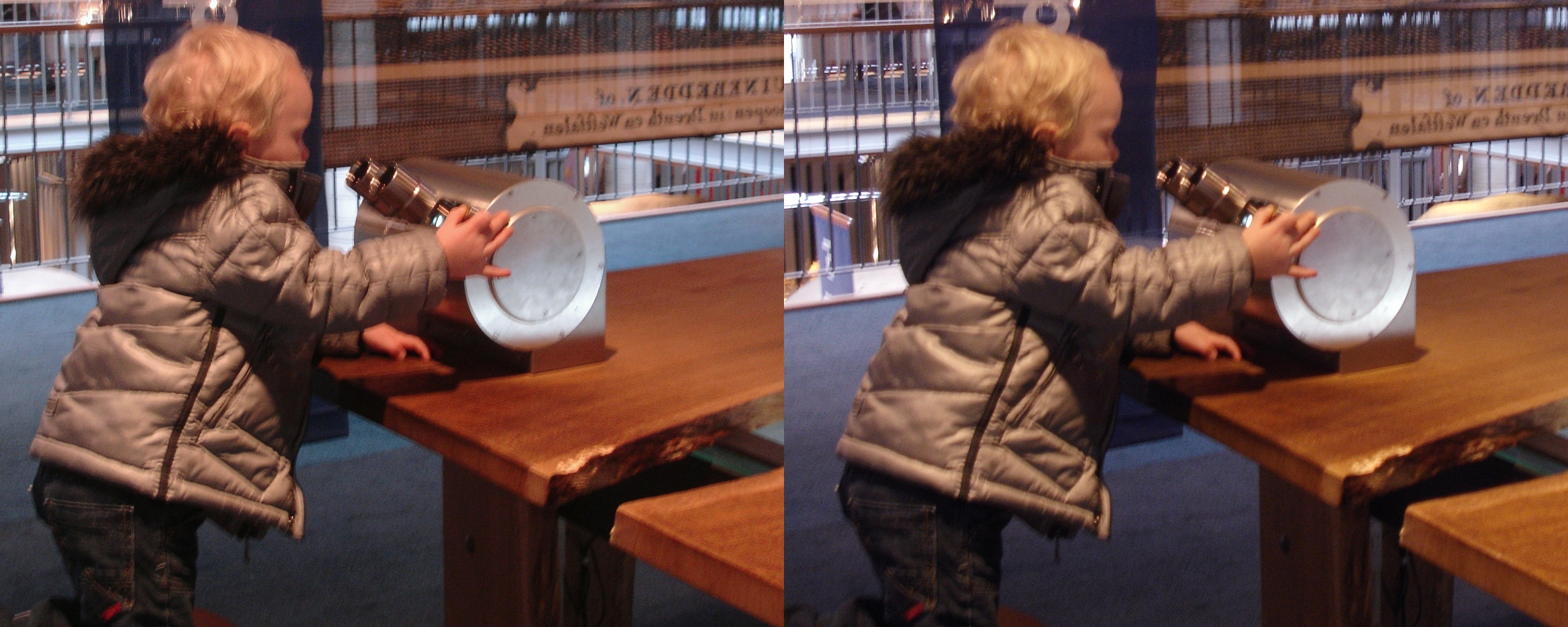 A stereoscope in a museum. Borger, Netherlands